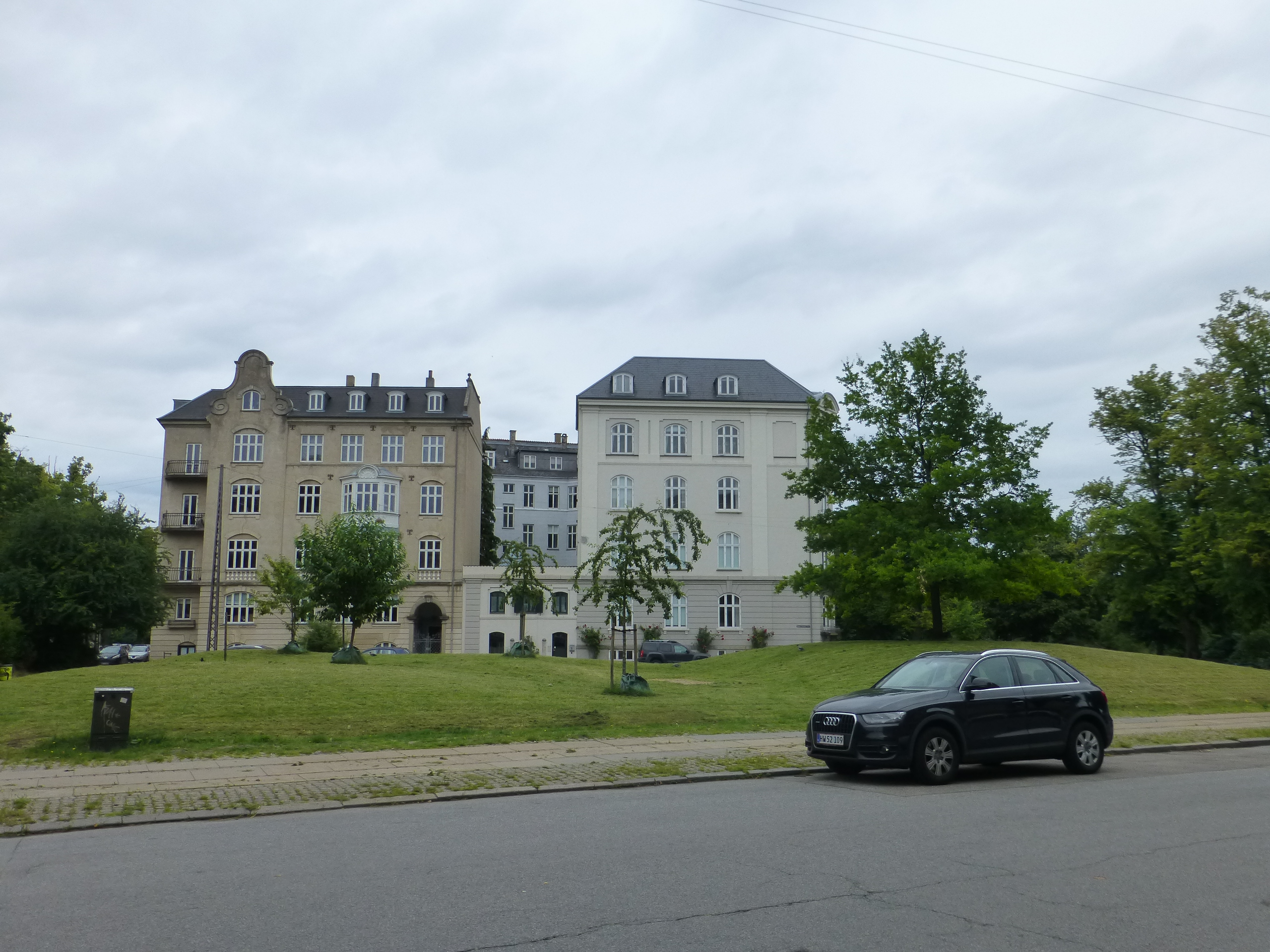 The square Hjalmar Brantings Plads in Østerbro in Copenhagen.